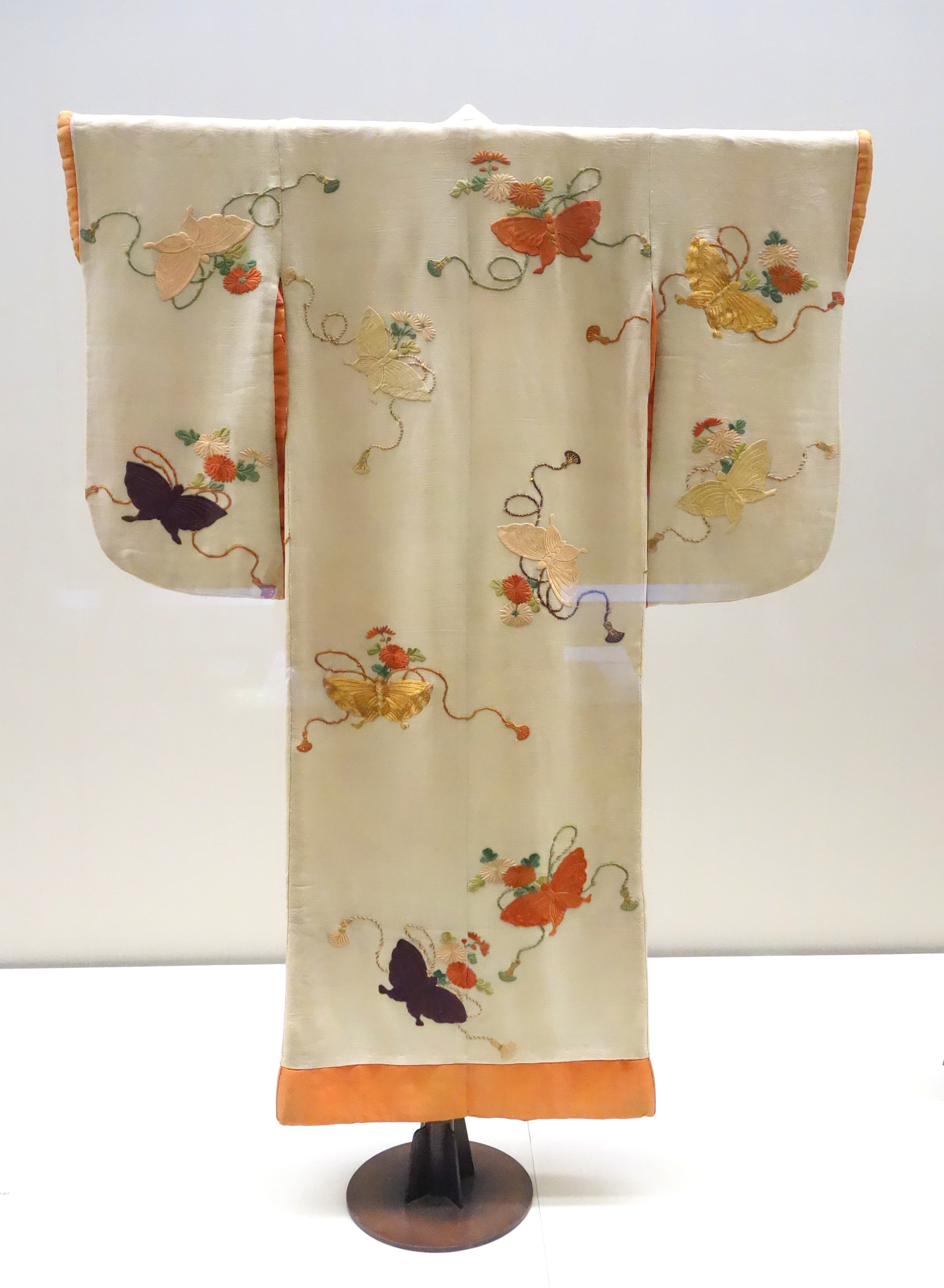 Exhibit in the Tokyo National Museum, Tokyo, Japan. This artwork is old enough so that it is in the public domain.